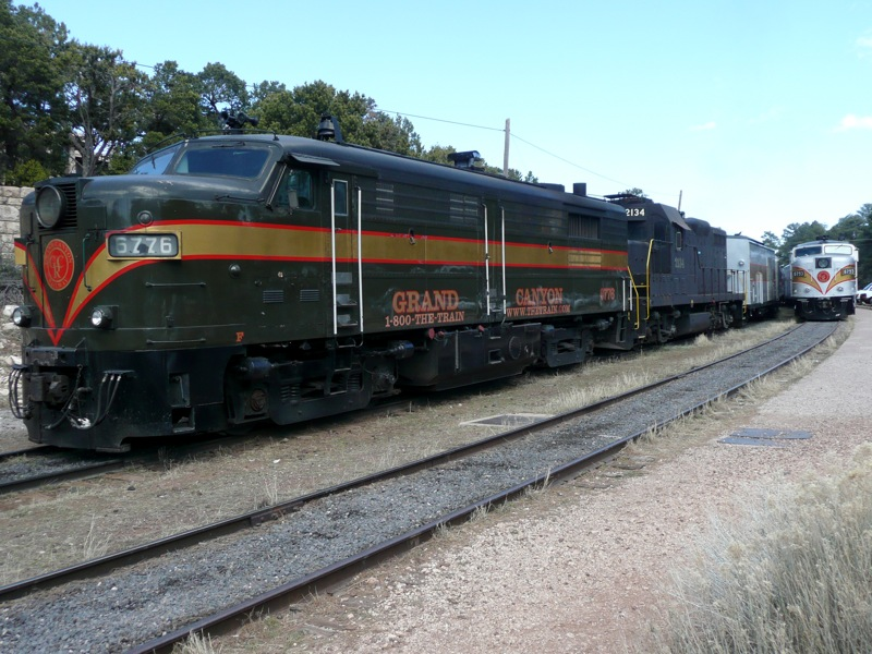 The Grand Canyon Railway (AAR reporting marks GCRX), is a passenger railroad and heritage railway which operates between Williams, Arizona, and the South Rim of Grand Canyon National Park. Two trains operate daily during the summer and holiday periods. Grand_Canyon_Railway